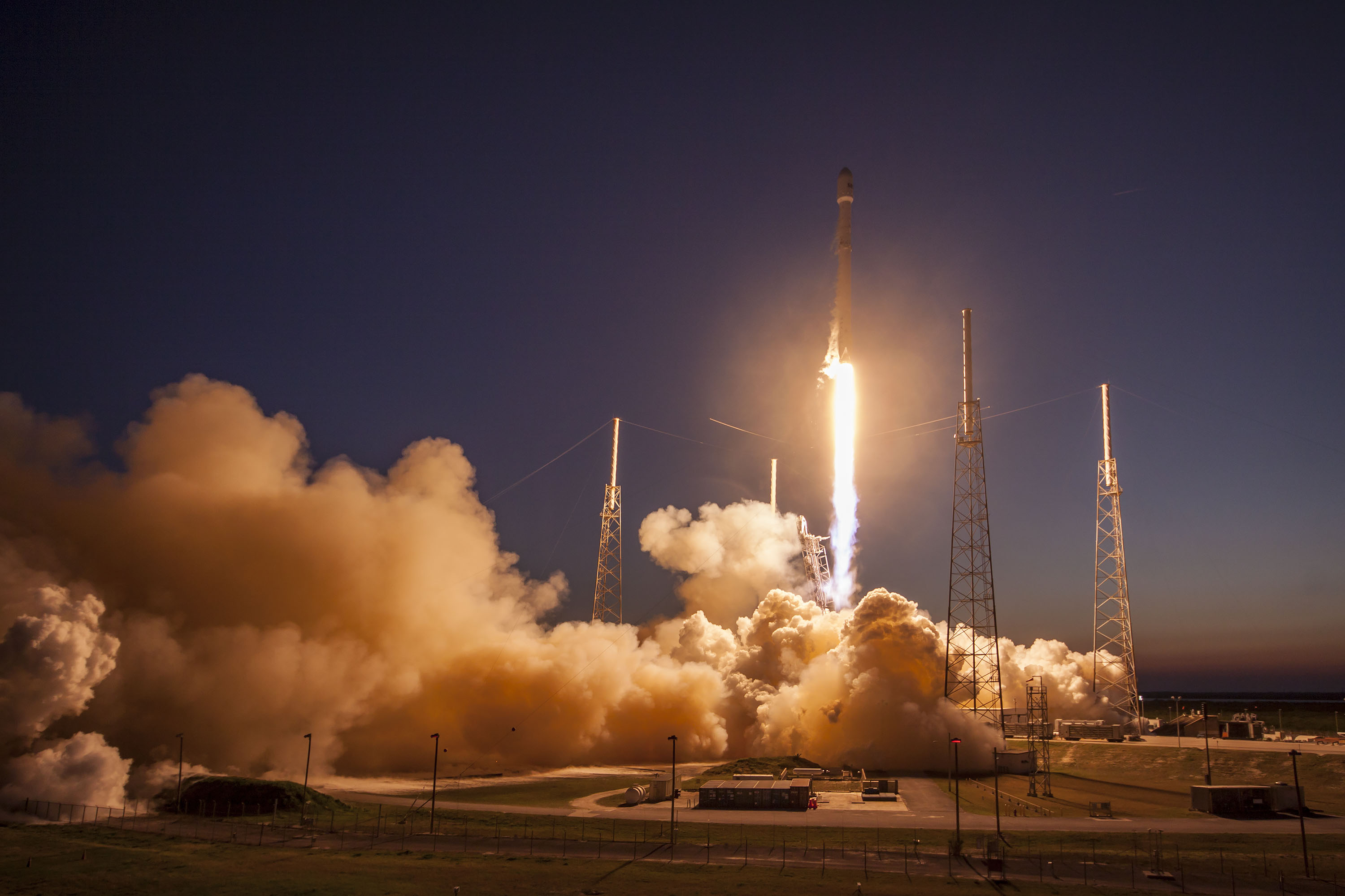 SES-9 launch